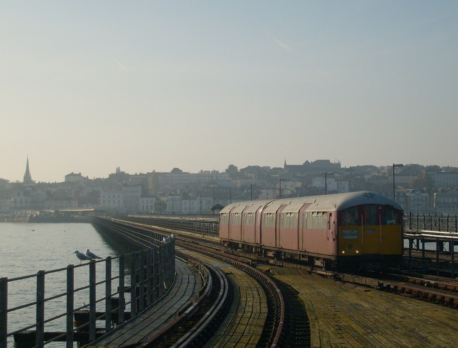 Island Line Class 483 No. 008 in London Underground livery arrives at Ryde Pier Head